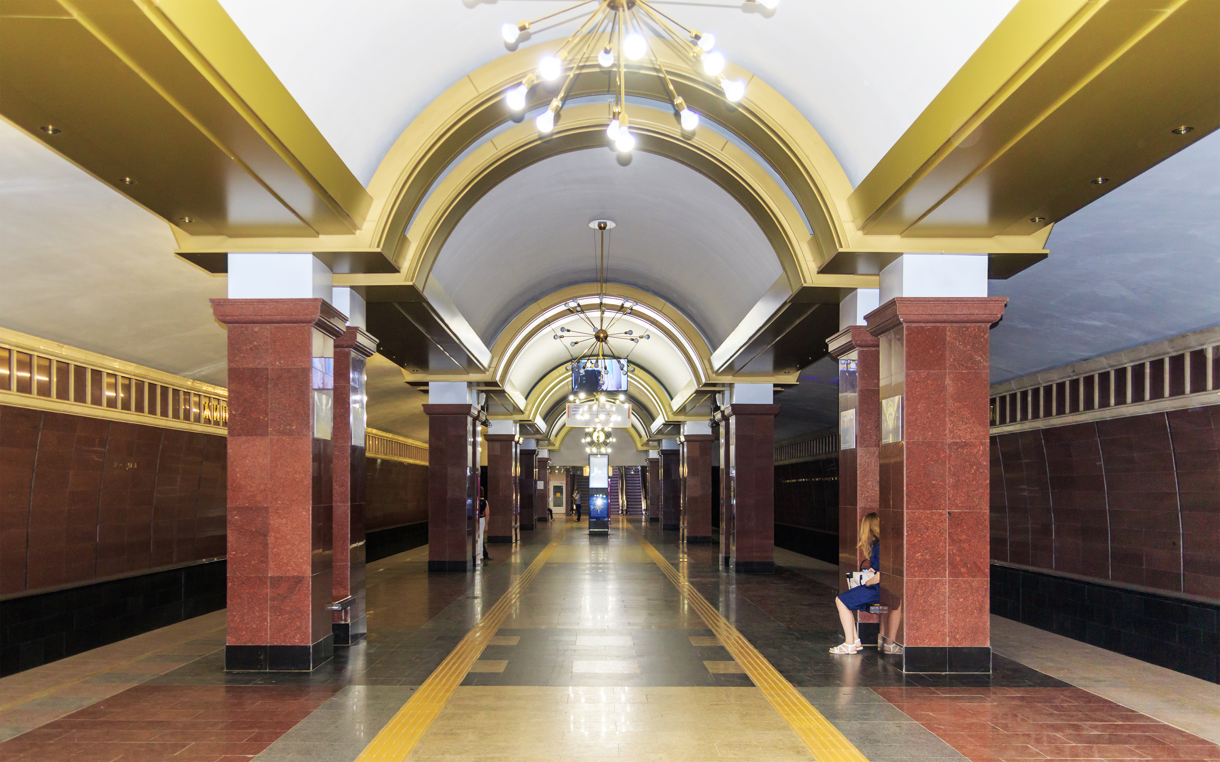 Prospekt Pobedy metro station in Kazan, Russia